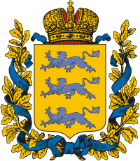 Estland (Reval) gubernia (Russian empire), coat of arms